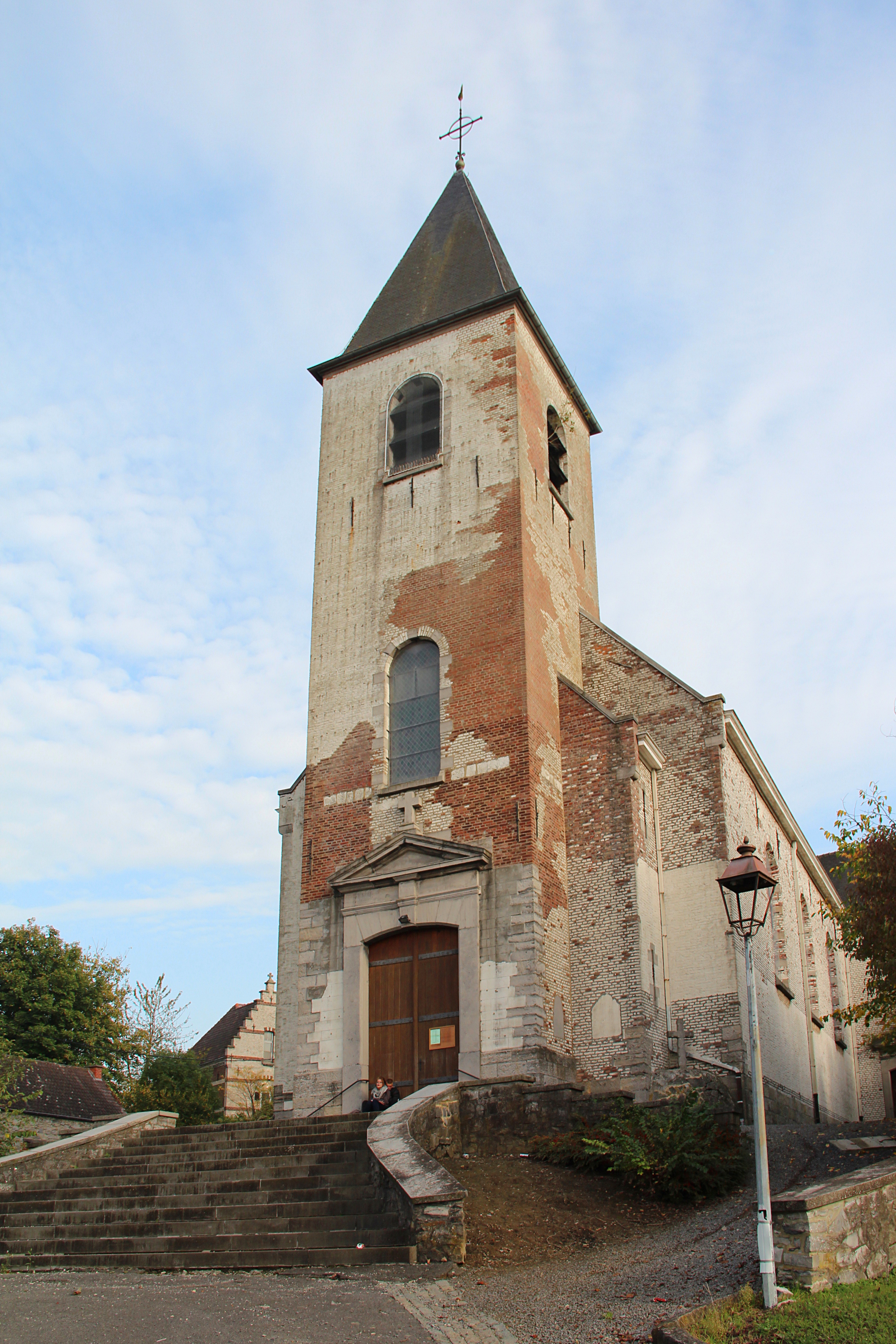 Vaulx (Belgium), the church of Saint Peter (XVIII-XXth centuries).